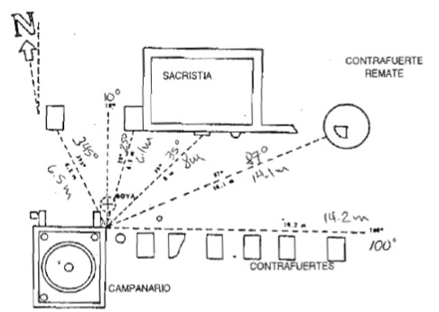 San Juan Bautista Tequesquitengo Church